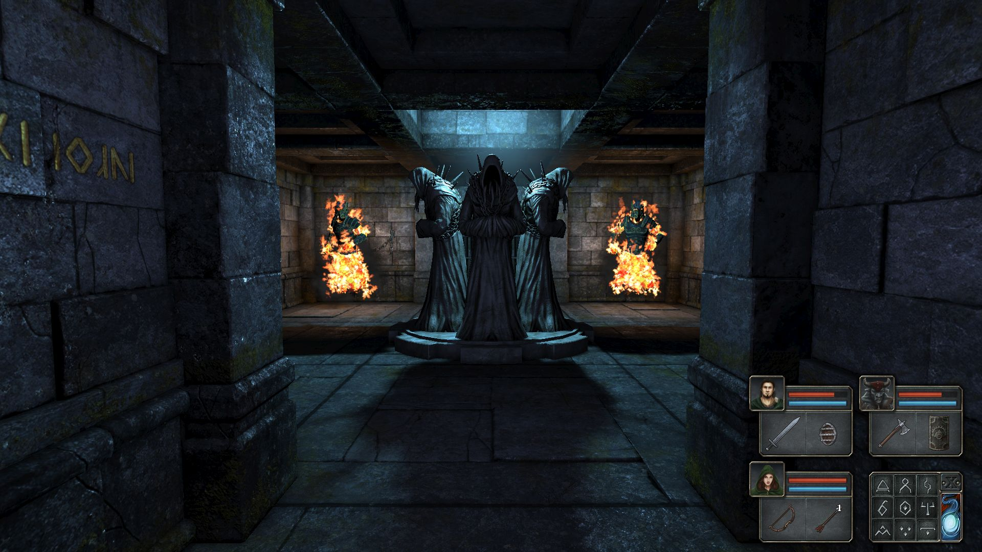 screenshot of the dungeon crawler computer game Legend of Grimrock (2012)